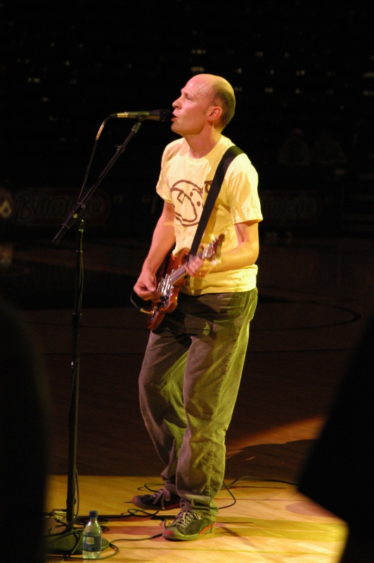 Chris Ballew, the basitar of The Presidents of the United States of America. Taken in KeyArena, Seattle.